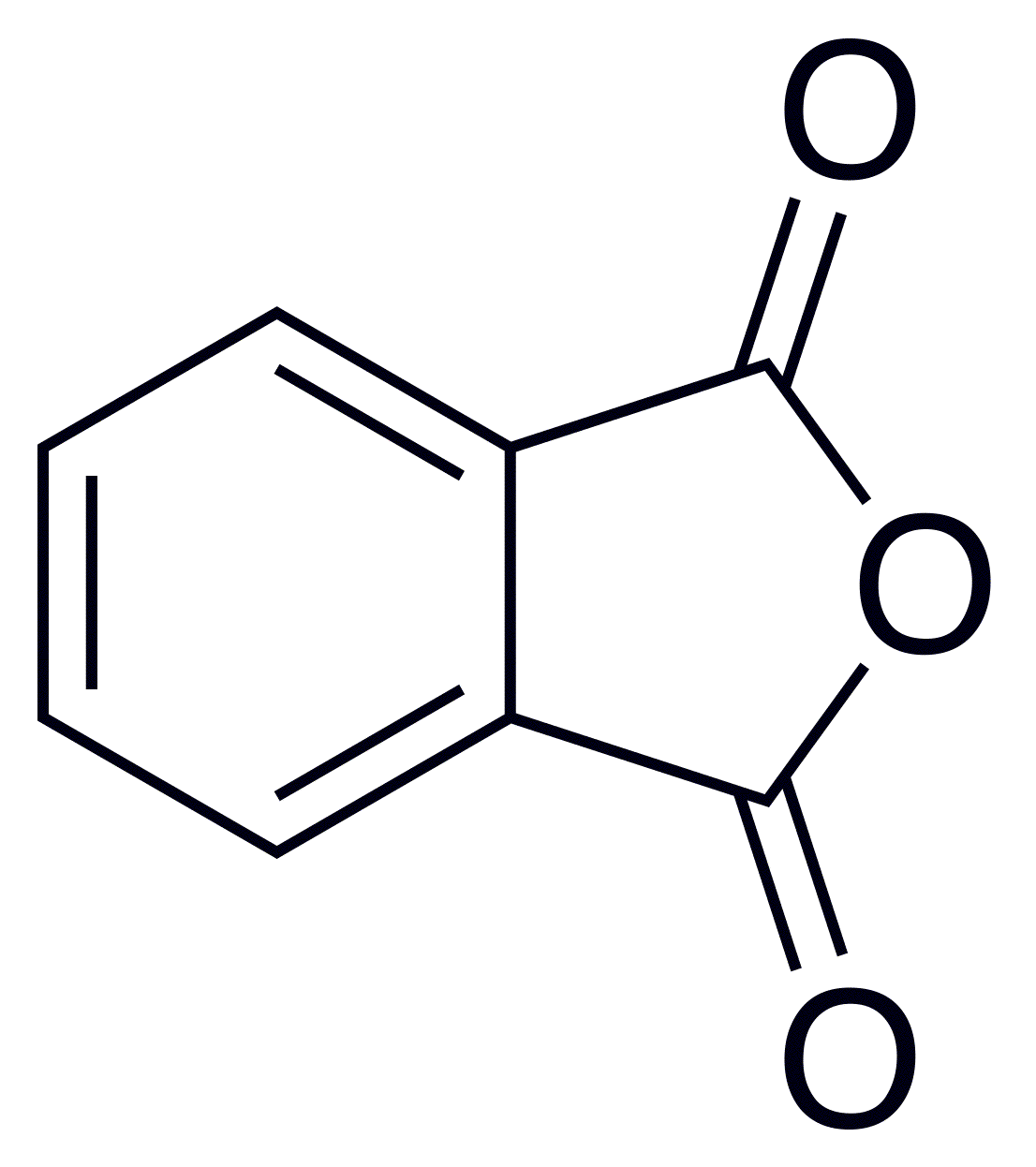 Skeletal structure of phthalic anhydride. Created with ChemDraw.